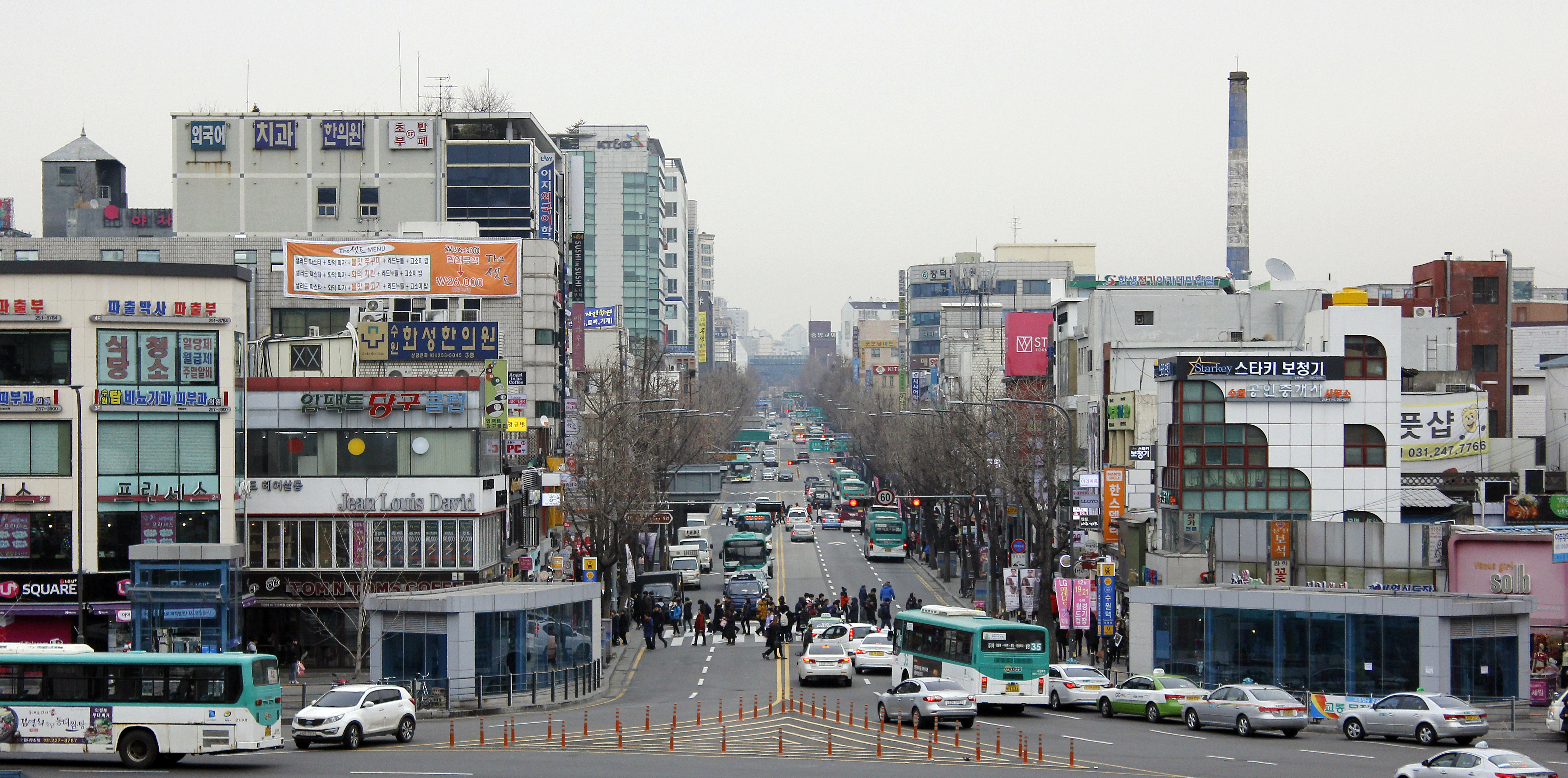 Maesan-ro, Suwon